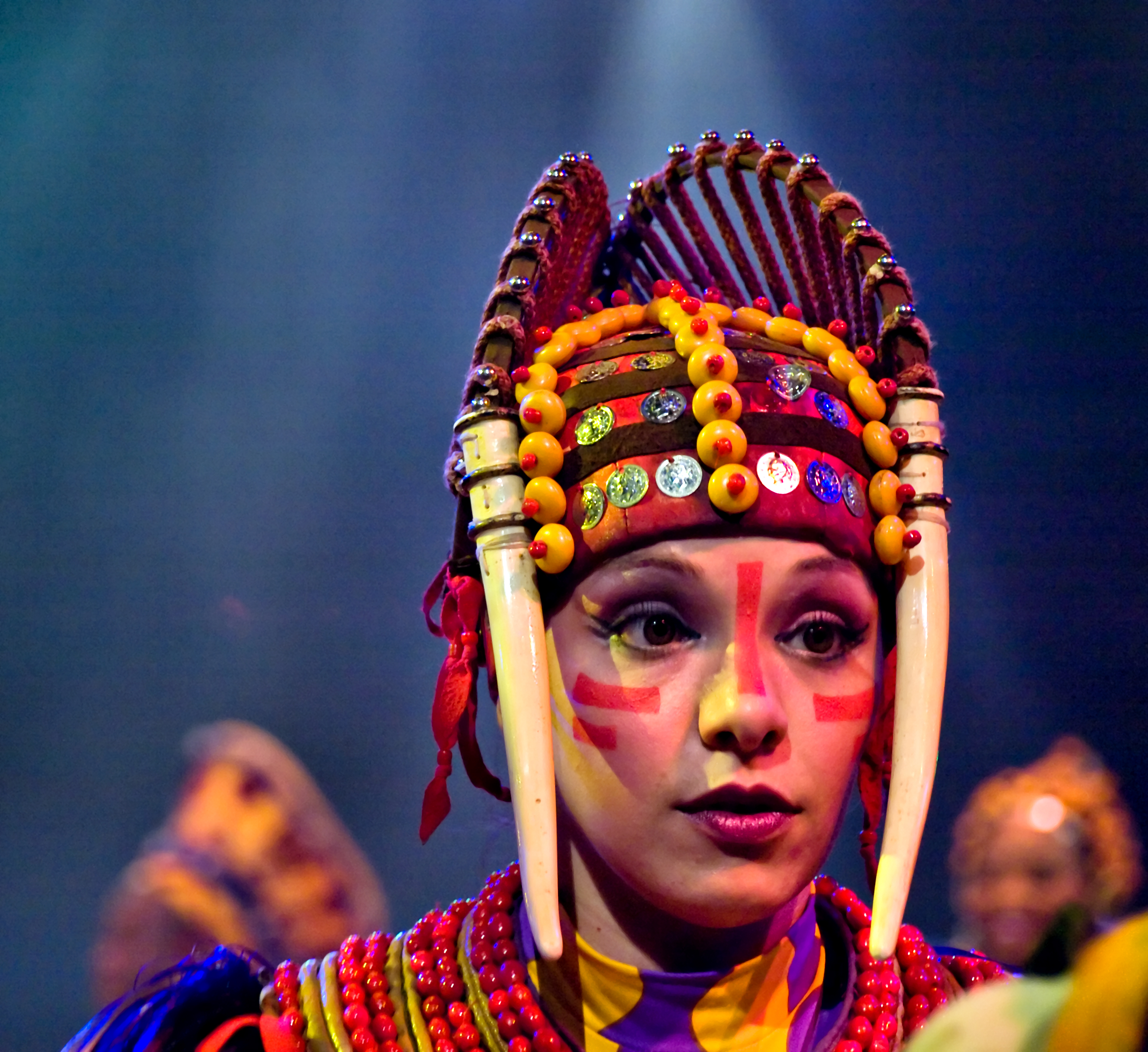 The Festival of the Lion King is a live stage show featuring acrobatics and musical performances inspired by The Lion King. One actress dresses up with tusks.